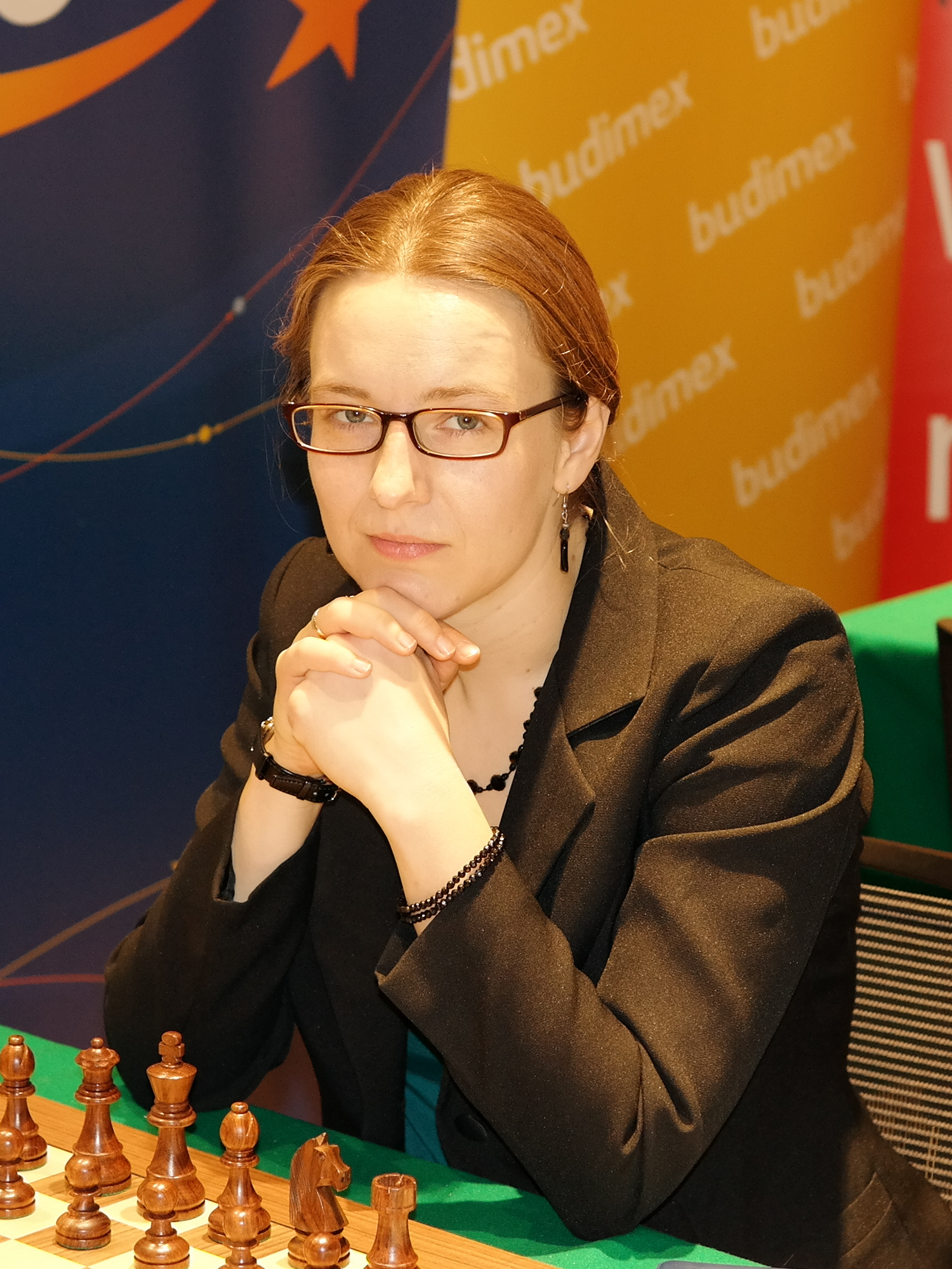 WIM Edyta Jakubiec, Polish Chess Championship, Warsaw 2014